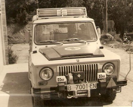 Aro 243 D. High altitude rescue 4WD ambulance. Unitat de Moto Alpina de Creu Roja Espanyola a Barcelona, 1980 - 1990